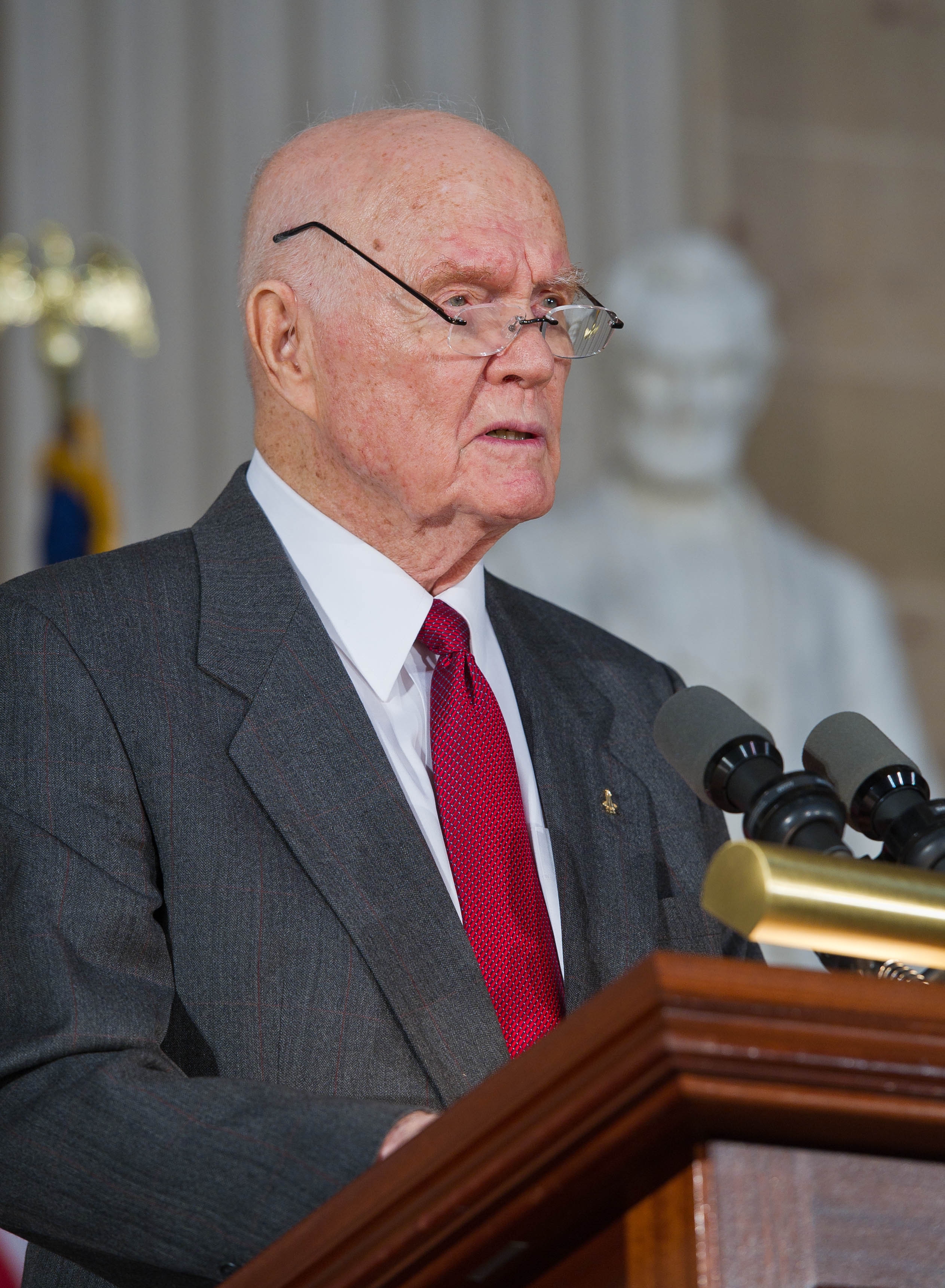 John Glenn, the first American to orbit the Earth, delivers remarks during a Congressional Gold Medal ceremony honoring Apollo 11 astronauts Neil Armstrong, Buzz Aldrin and Michael Collins and himself in the Rotunda at the U.S. Capitol, Wednesday, Nov. 16, 2011, in Washington. The Congressional Gold Medal is an award bestowed by Congress and is, along with the Presidential Medal of Freedom the highest civilian award in the United States. The decoration is awarded to an individual who performs an outstanding deed or act of service to the security, prosperity, and national interest of the United States.